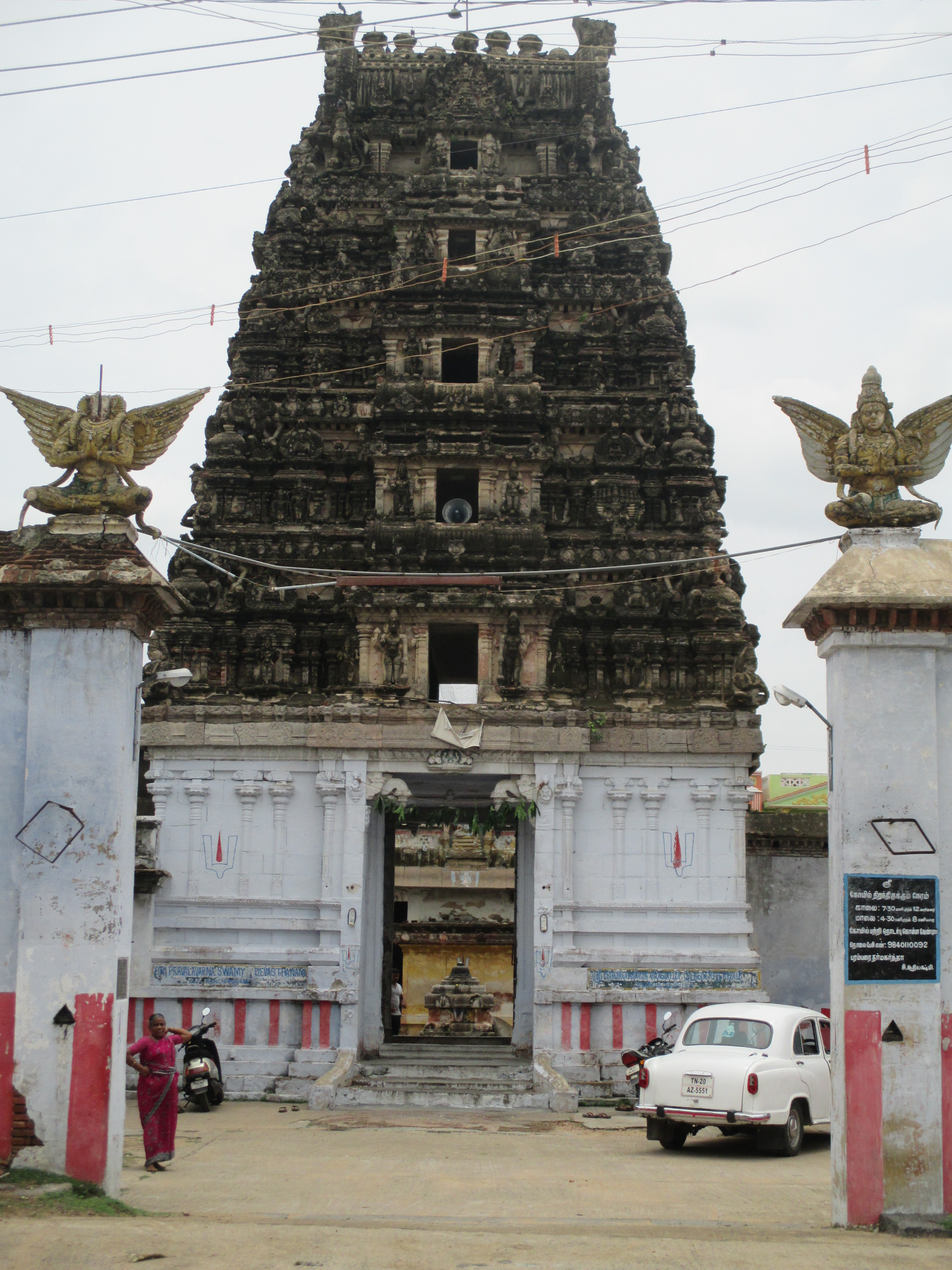 Pavalavannam Temple